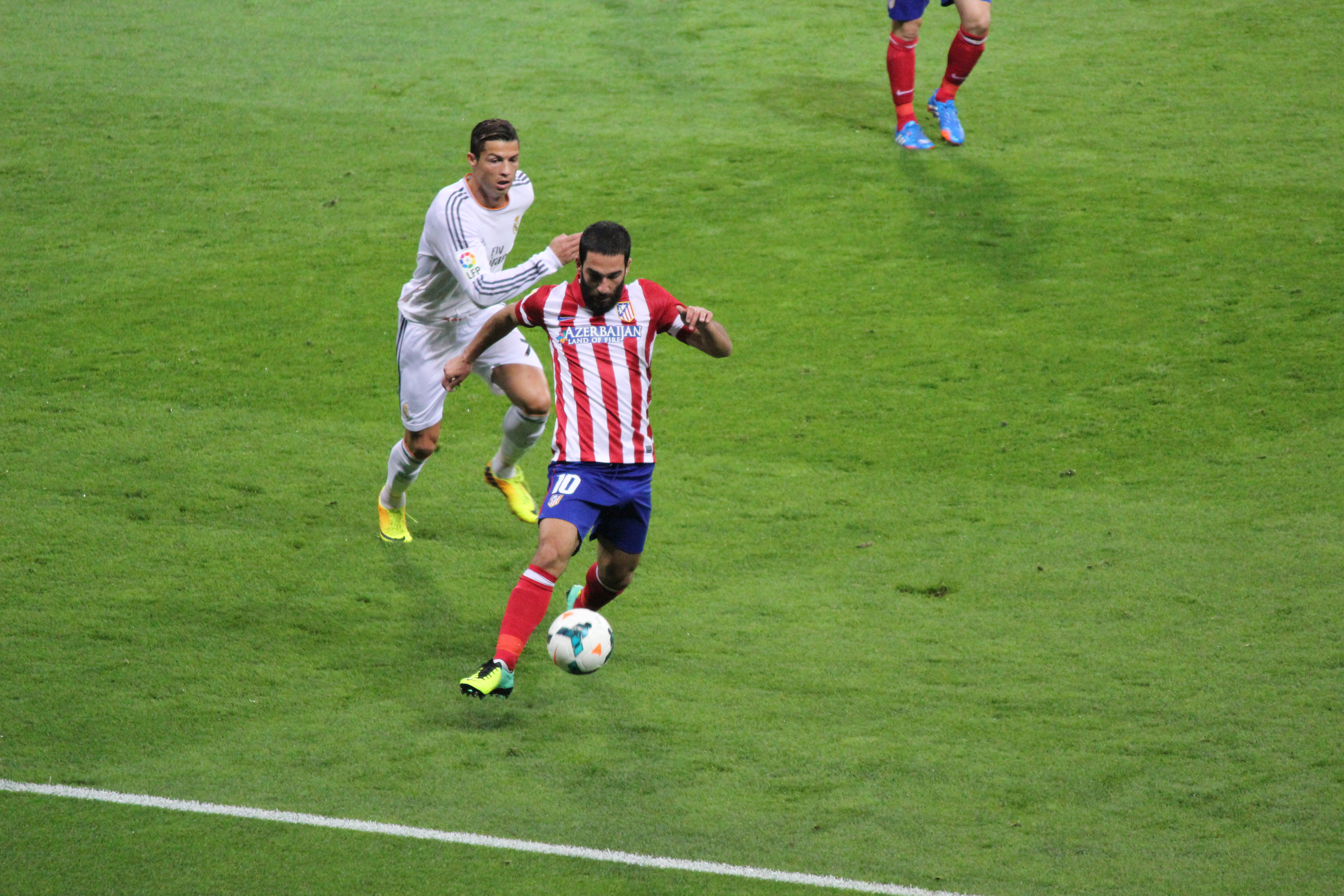 Picture from 28 Septemeber game between Real Madrid and Atlético Madrid.